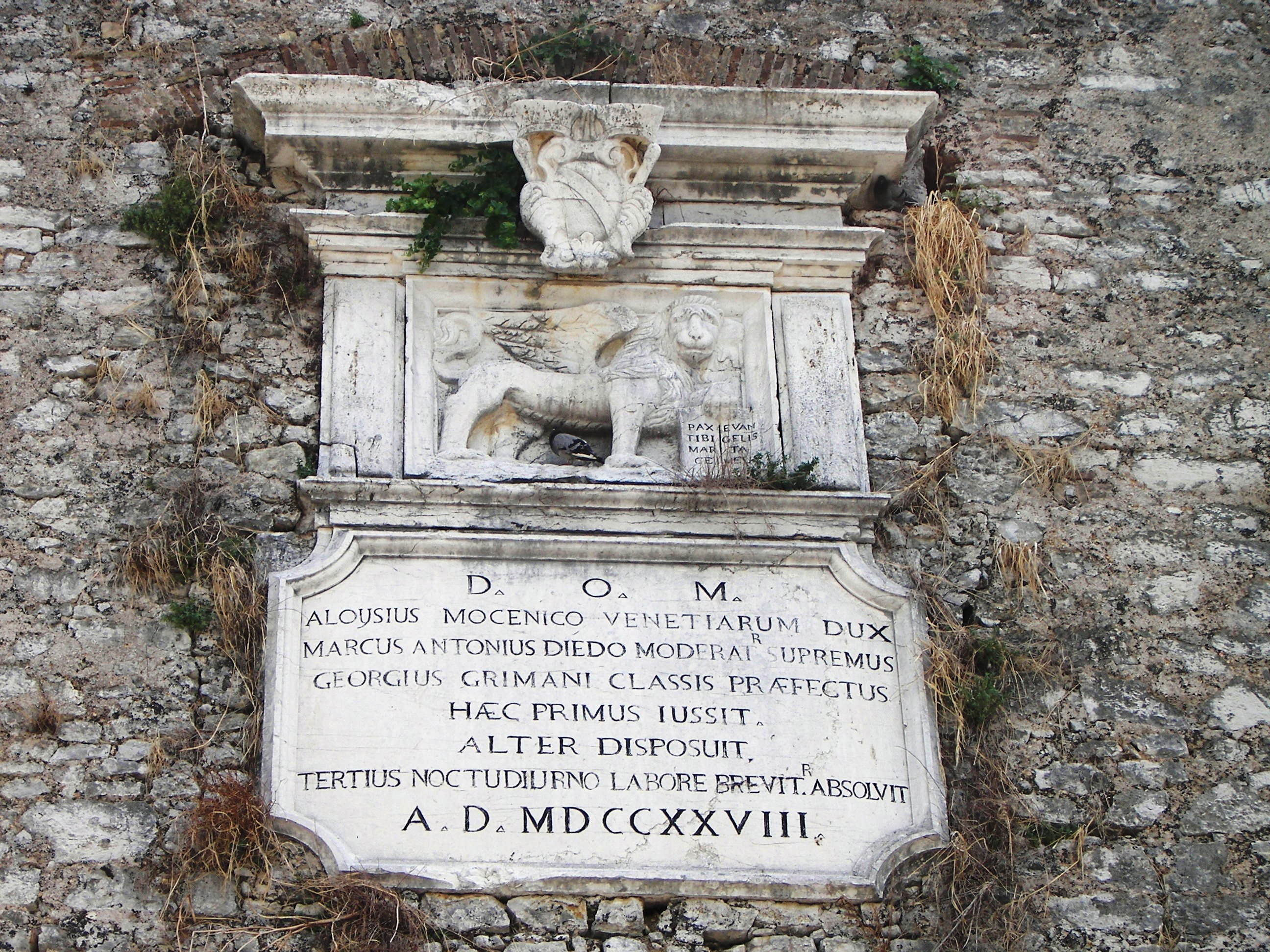 1728 Venetian Monument on Defensive Wall of Corfu Town, with Lion of Saint Mark (Symbol of Venice) above. Inscribed in Latin: D(eo) O(ptimo) M(aximo) Aloysius Mocenico Venetiarum Dux Marcus Antonius Diedo Moderat(o)r Supremus Georgius Grimani Classis Praefectus Haec Primus Jussit Alter Disposuit Tertius Noctudiurno Labore Brevit(e)r Absolvit ("To God, most good, most great, Alvise III Mocenigo, Duke of the Venetians (i.e. Doge); Marco Antonio Diedo, Supreme Governor; Giorgio Grimani, Commander of the Fleet; The first ordered this (i.e. the Wall); The second planned it; the third, by labour day and night, quickly completed it").